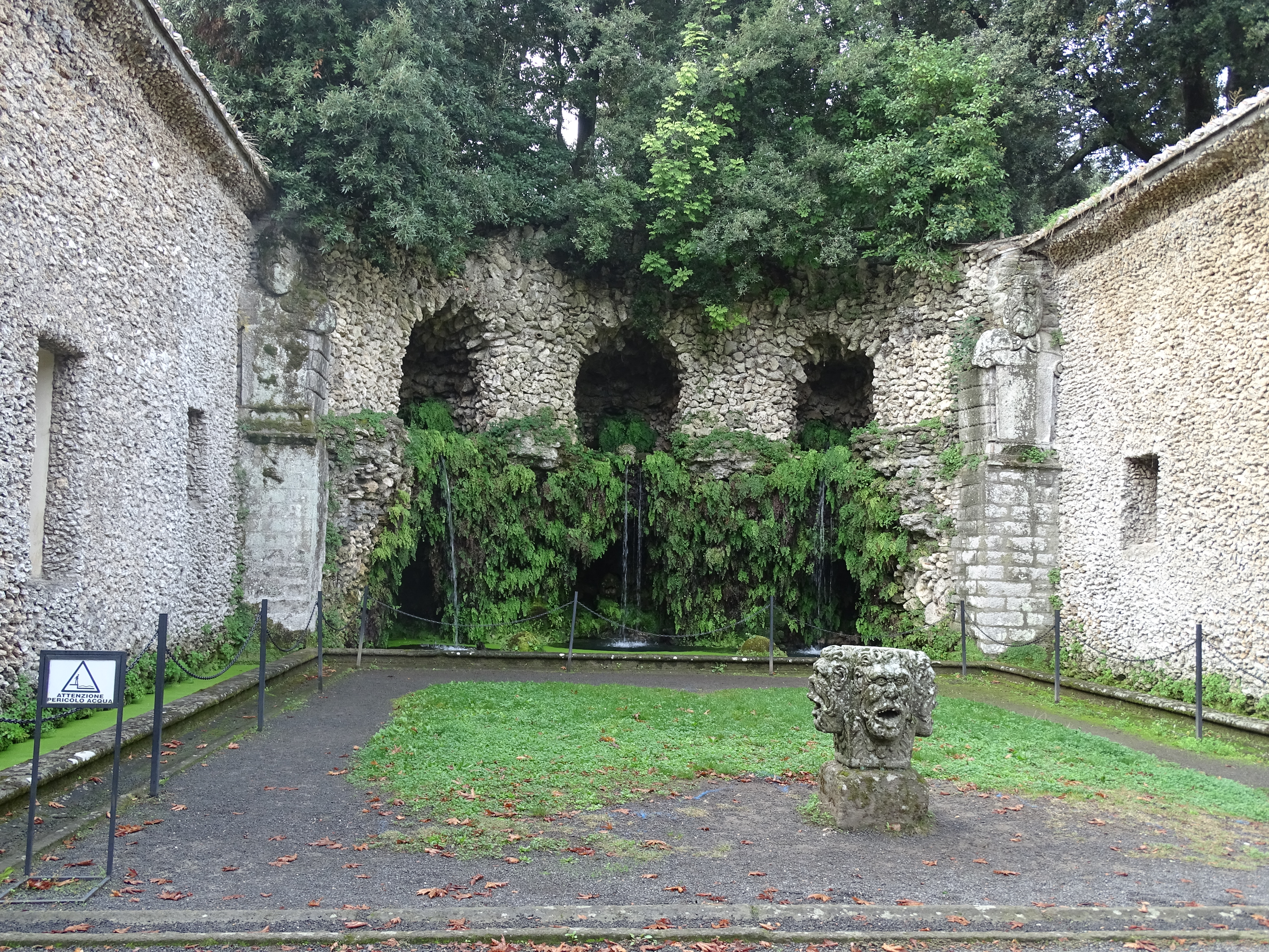 Fountains in the garden of the villa Lante